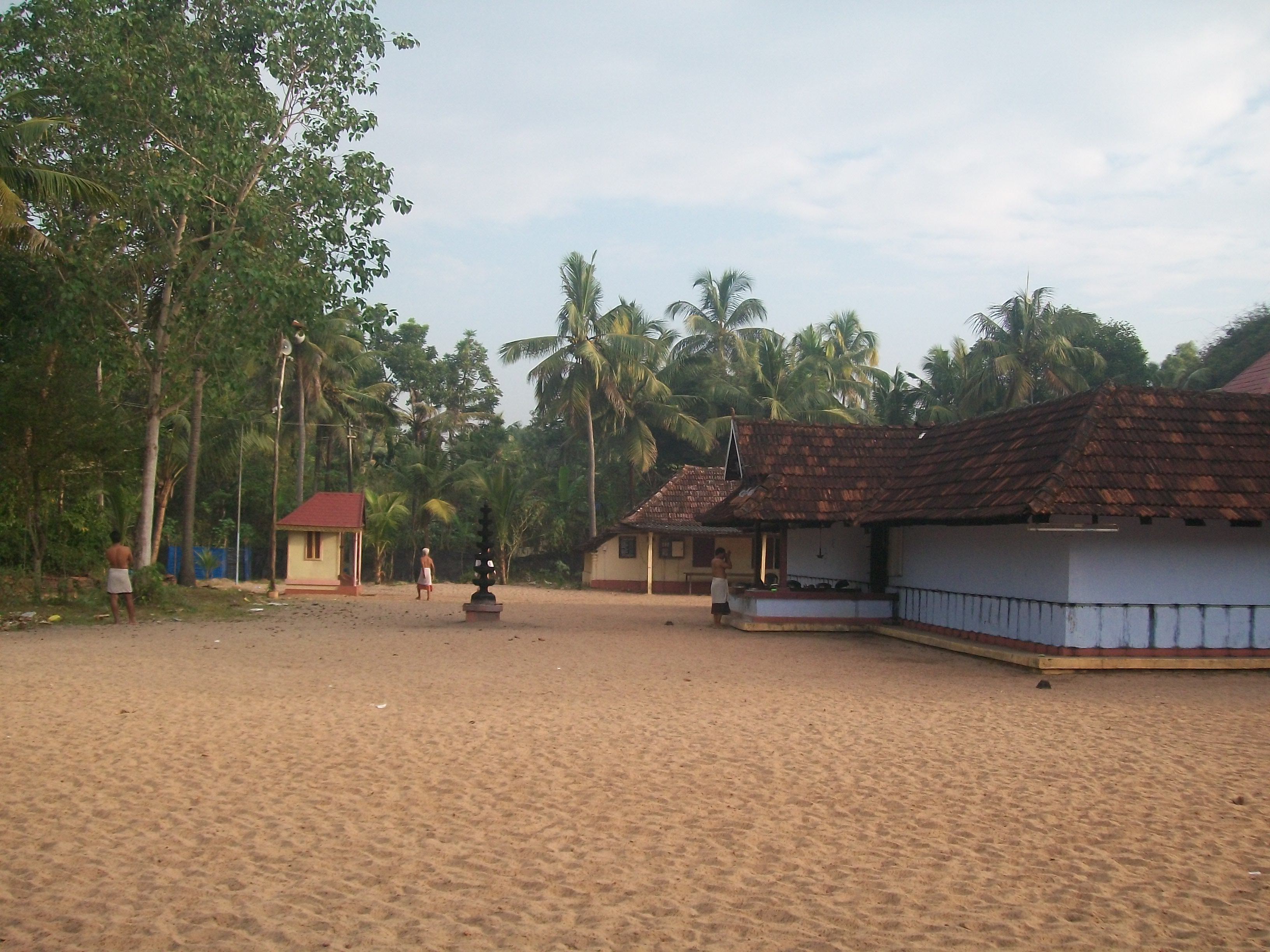 the Nagamkulangara temple, a famous temple in Vayalar